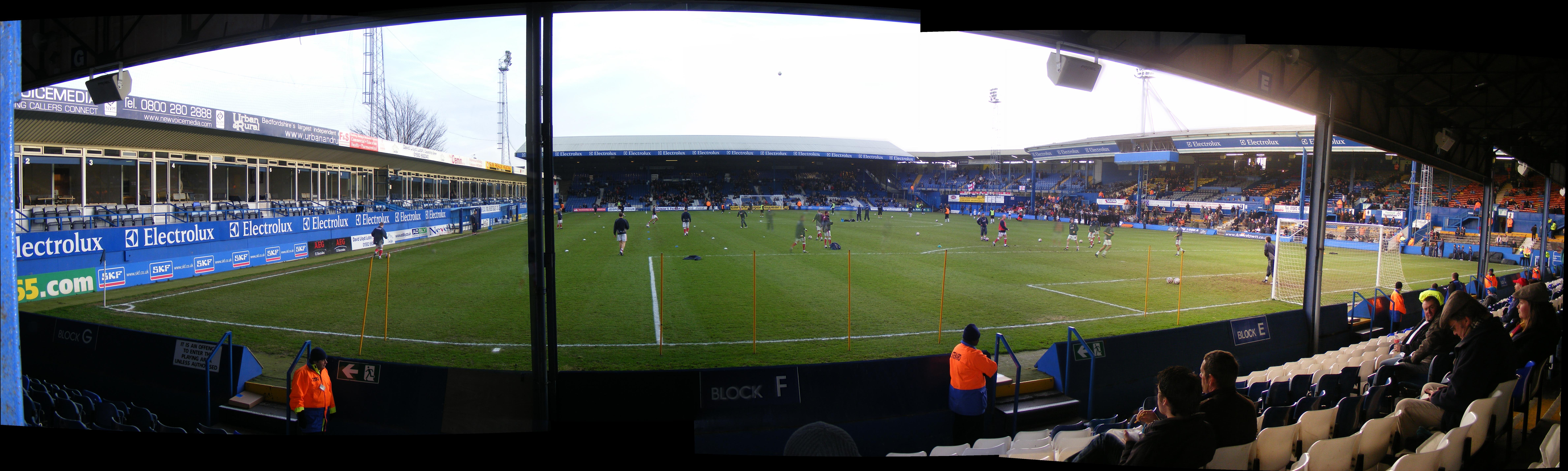 Panorama shot of Kenilworth Road, home of Luton Town F.C., in 2008.